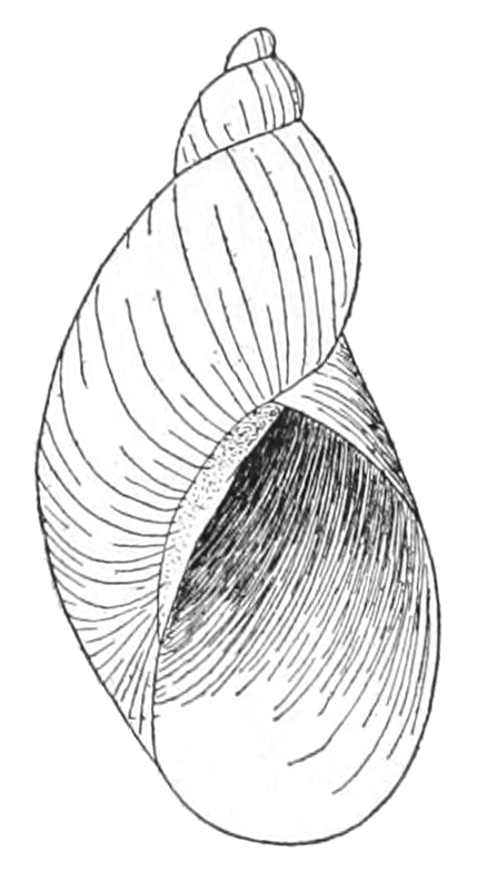 Drawing of the apertural view of the shell of Novisuccinea chittenangoensis.